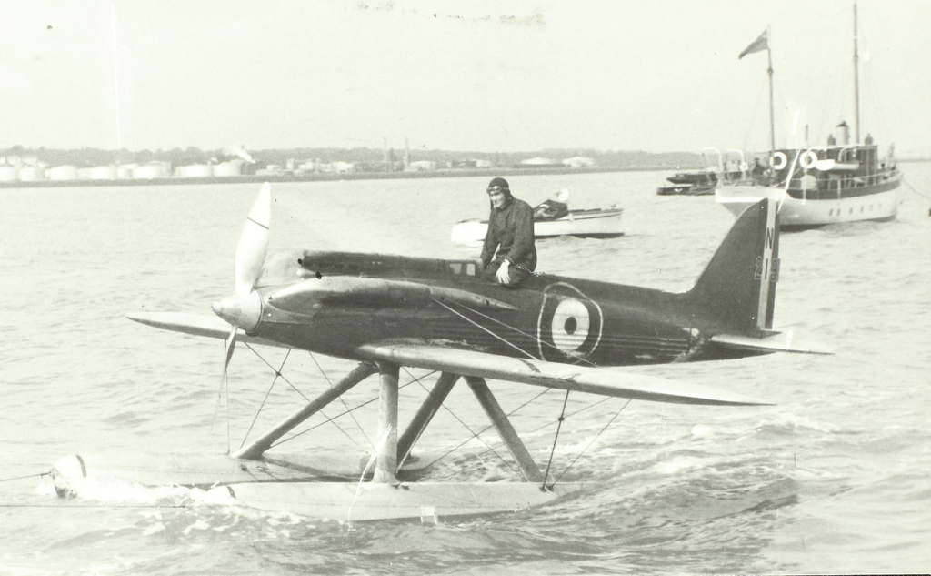 Image from the Charles Daniels Photo Collection album "British Aircraft." SOURCE INSTITUTION: San Diego Air and Space Museum Archive